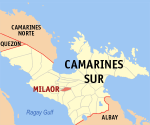 Map of Camarines Sur showing the location of Milaor